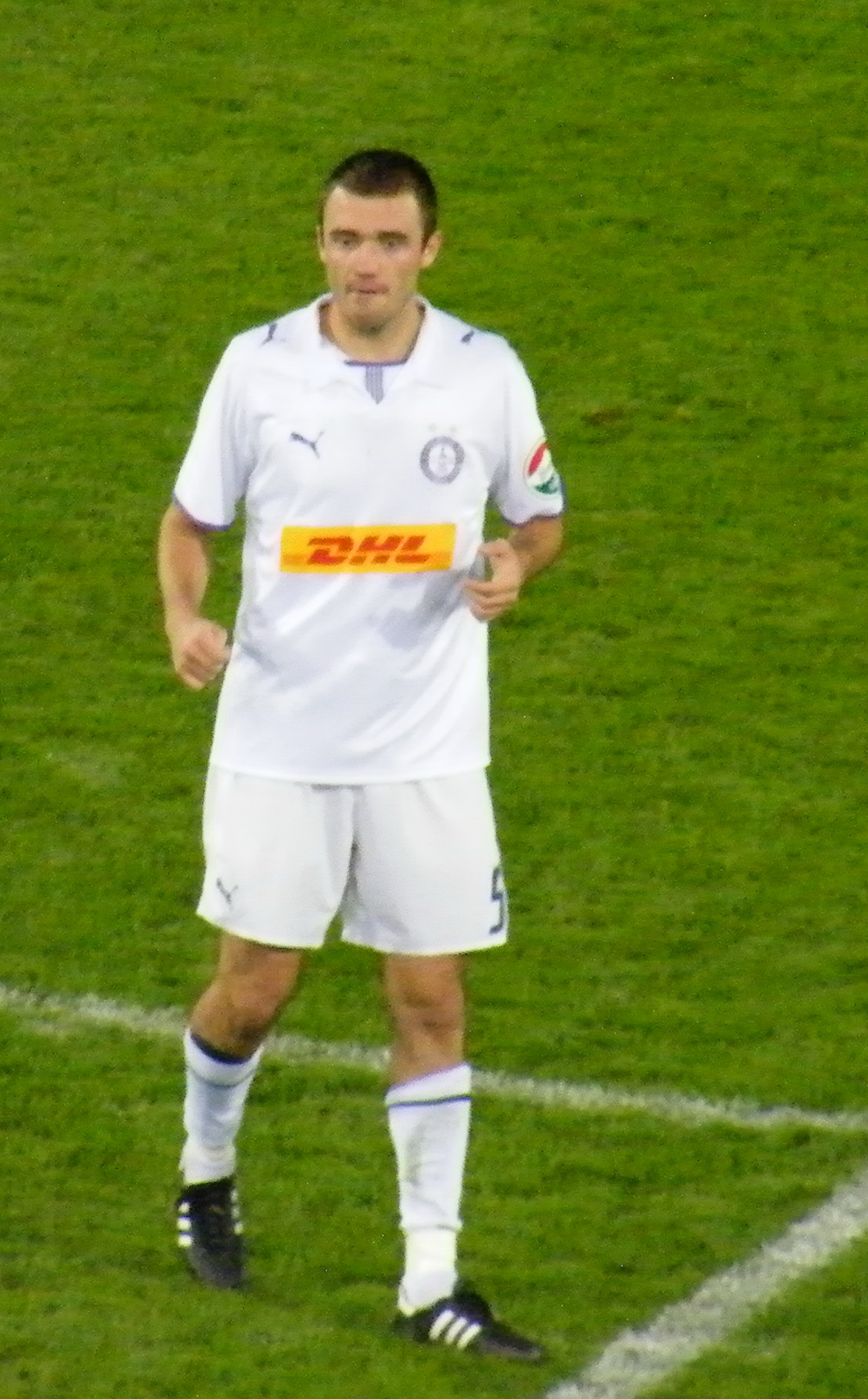 György Sándor Hungarian football player